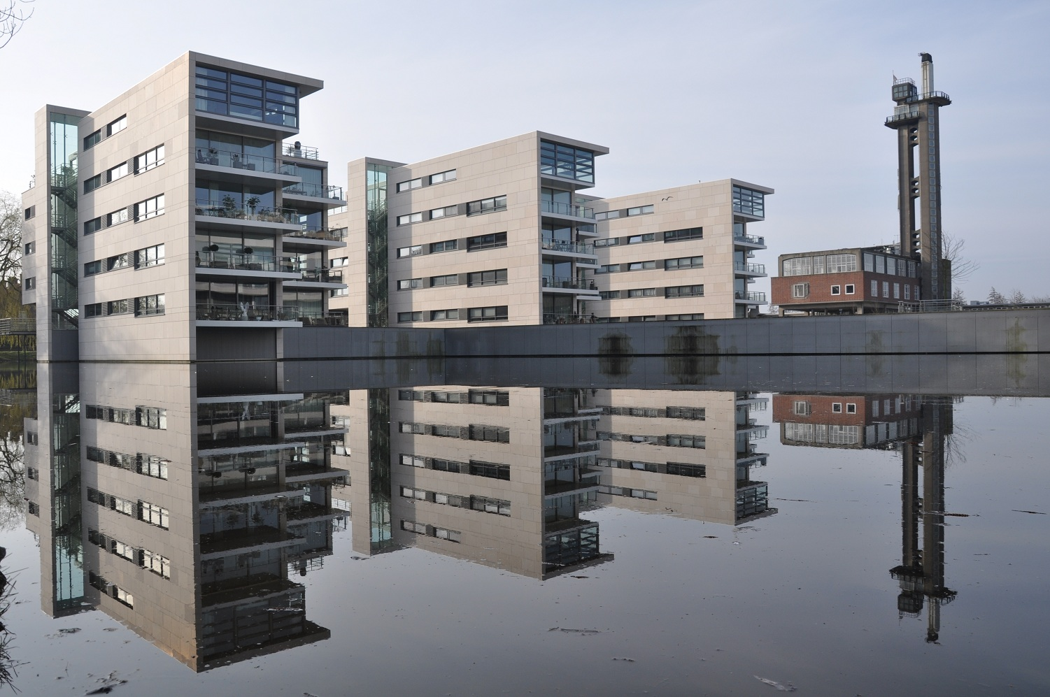 Neherpark, a modern housing project in Leidschendam, Netherlands. The complex is built on the site of the former Neher Laboratory of the Dutch Postal Service (PTT). The tower of the laboratory still stands (on the right) and is among the Top 100 Listed Buildings in the Netherlands from the period 1940-1958.